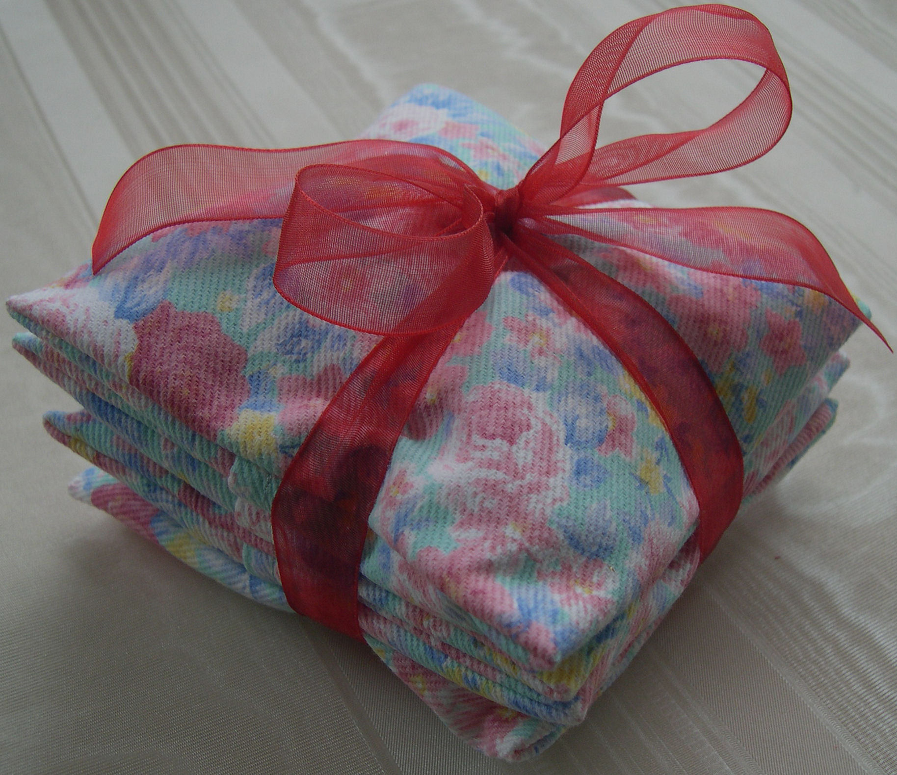 Blue Corduroy Lavender Sachets